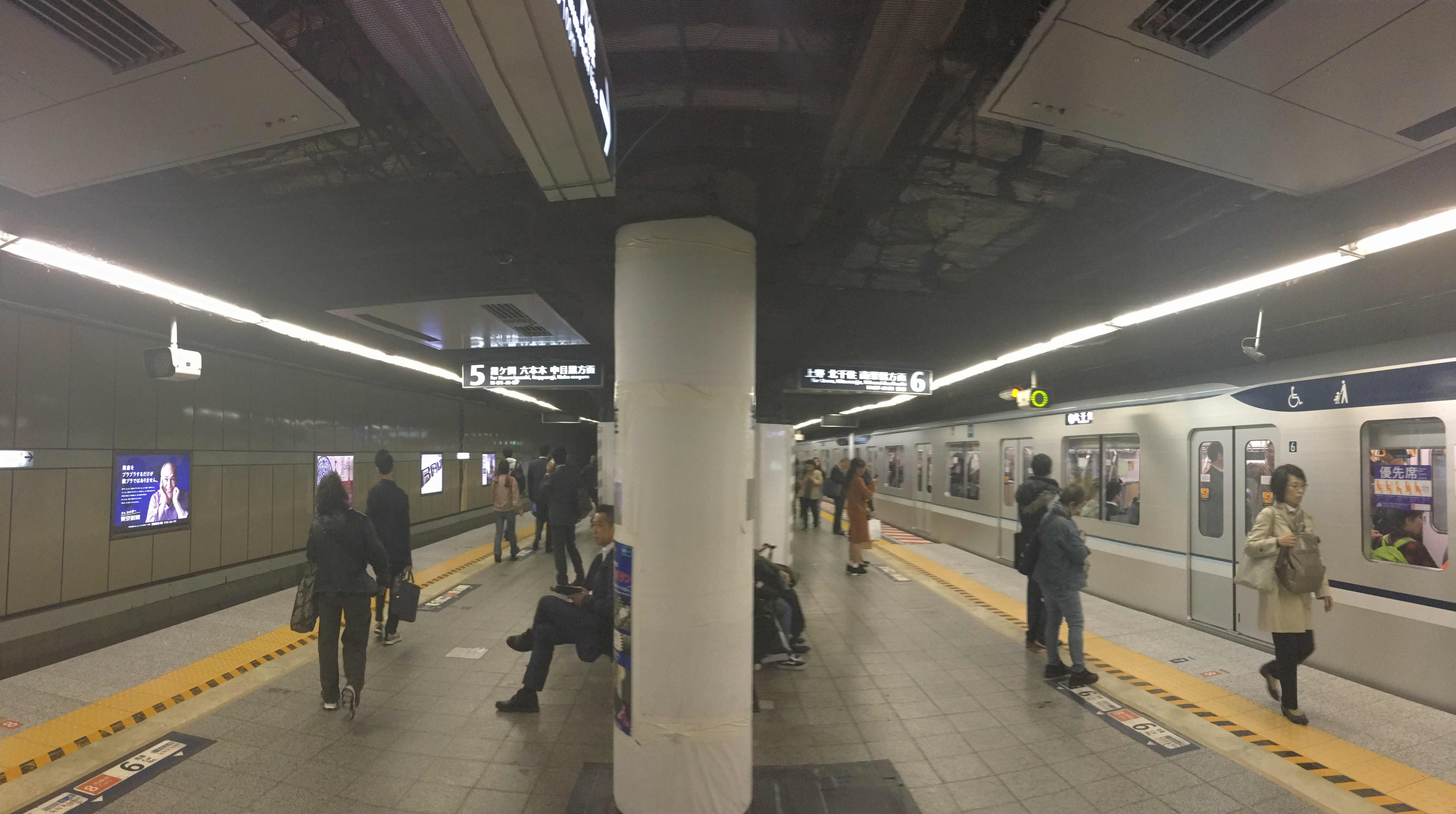 日比谷線、銀座駅のホーム (Hibiya Line, Ginza Station platform)